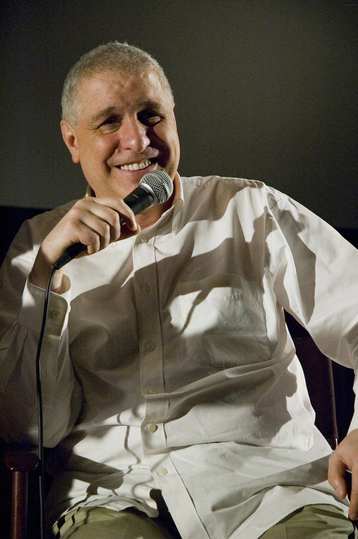 Errol Morris (born February 5, 1948) is an American Academy Award-winning documentary film director. This photo was taken on April 27,2008 during a Question & Answer session following a screening of the movie "Standard Operating Procedure" in Morristown, New Jersey.